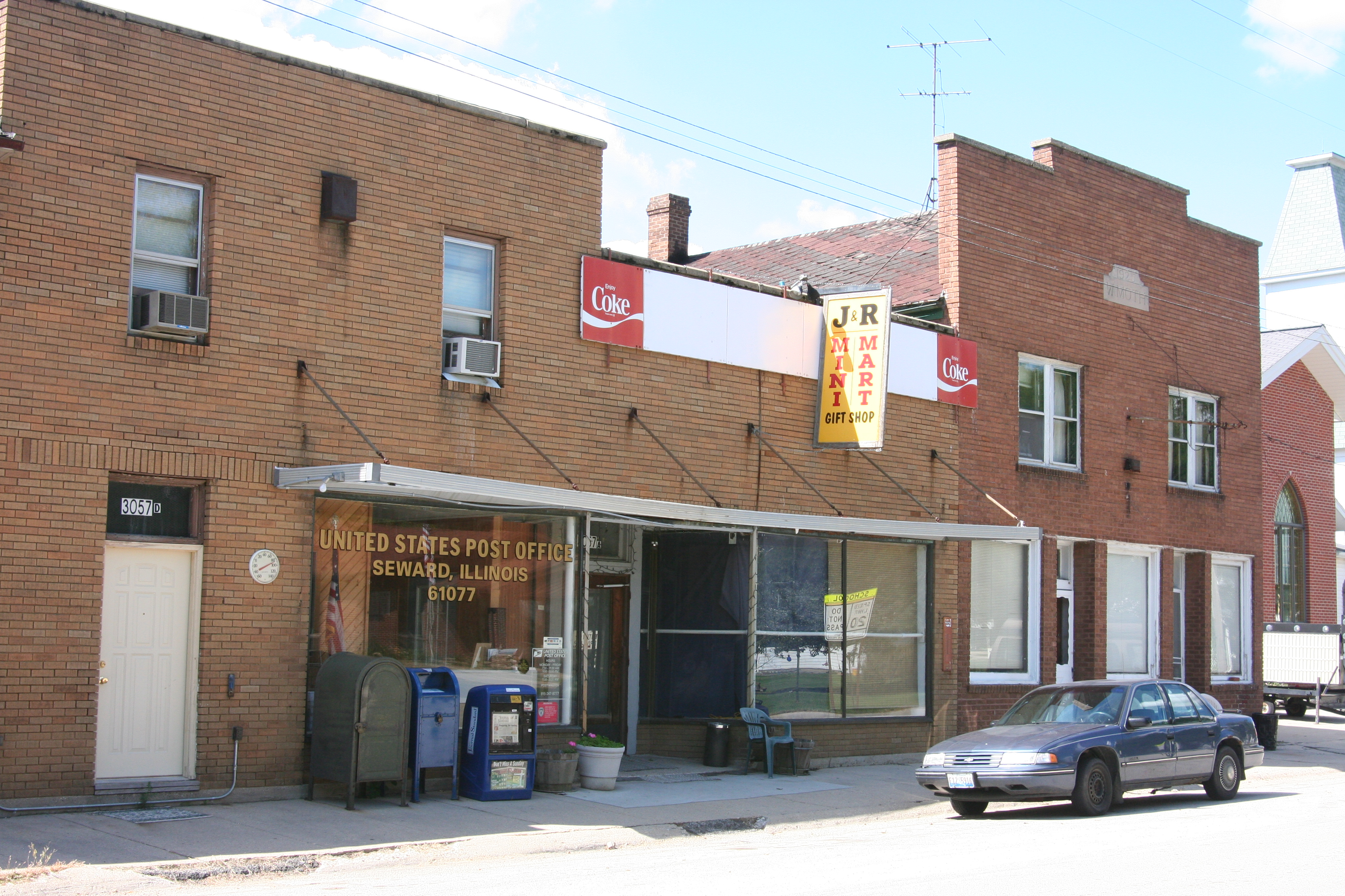 Photo of the buildings in Seward, Illinois, USA.